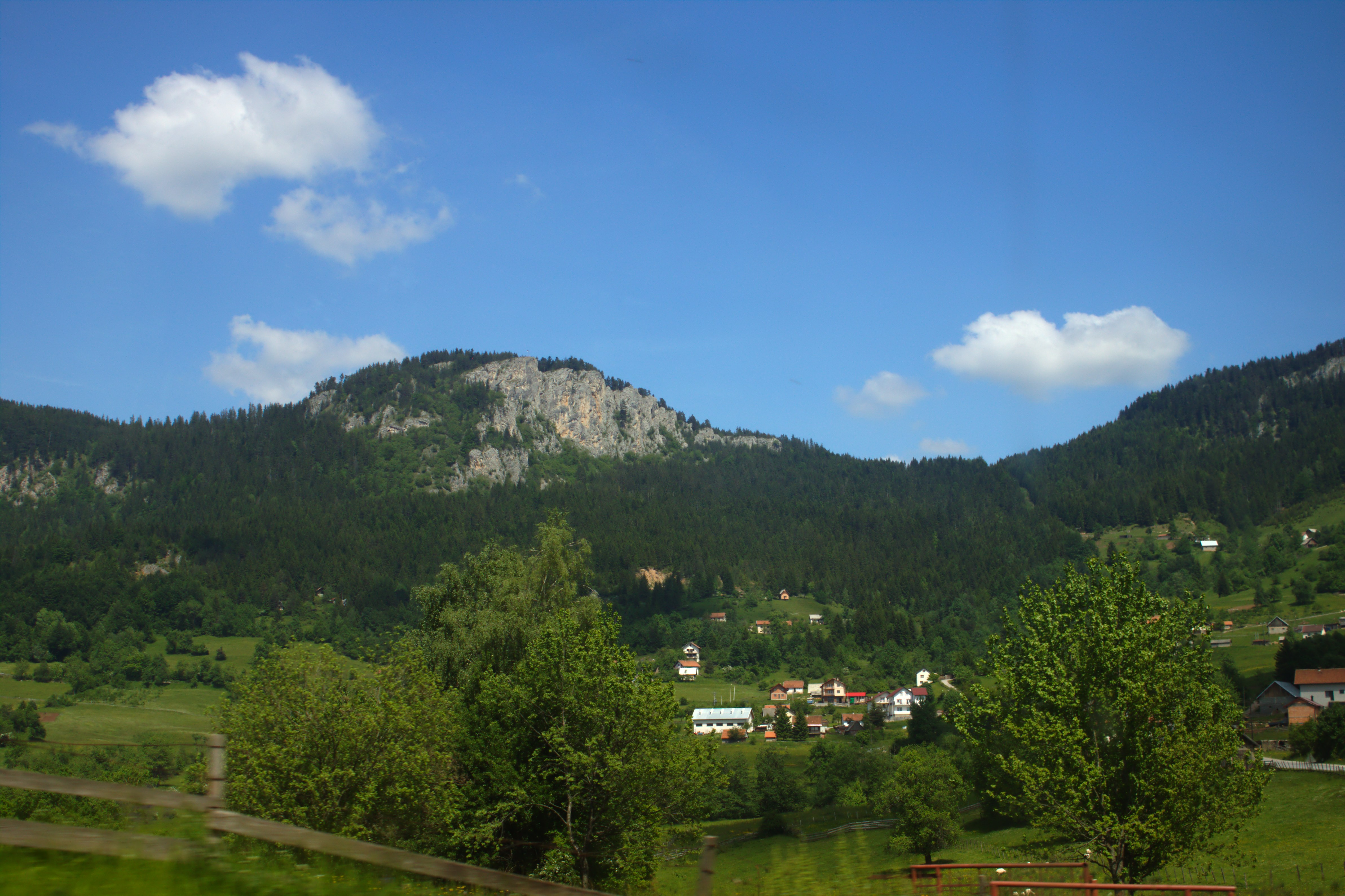 Hills in the Romanija mountain range in eastern Bosnia and Herzegovina - Republika srpska